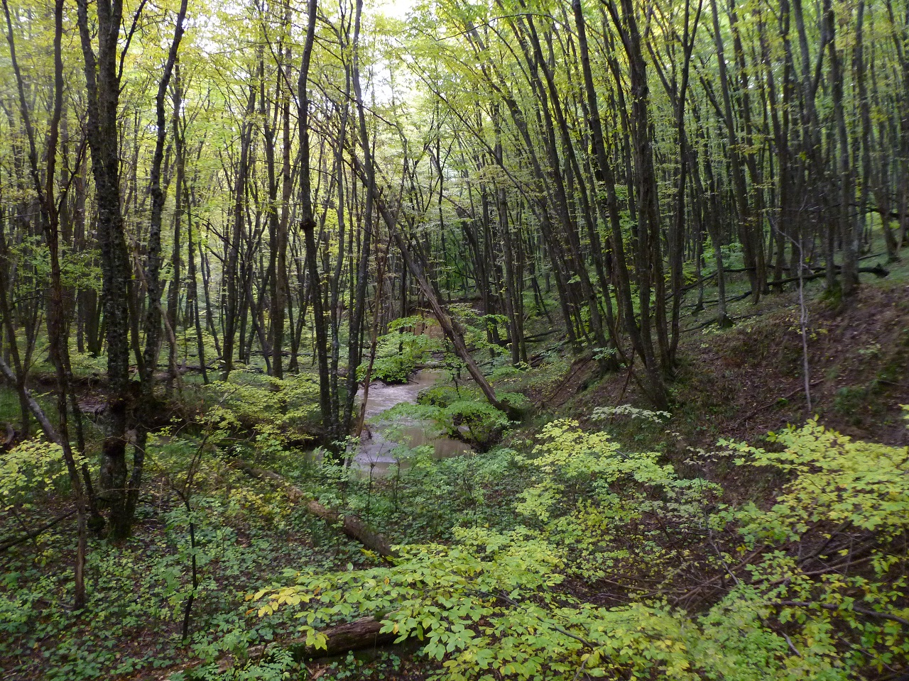 river